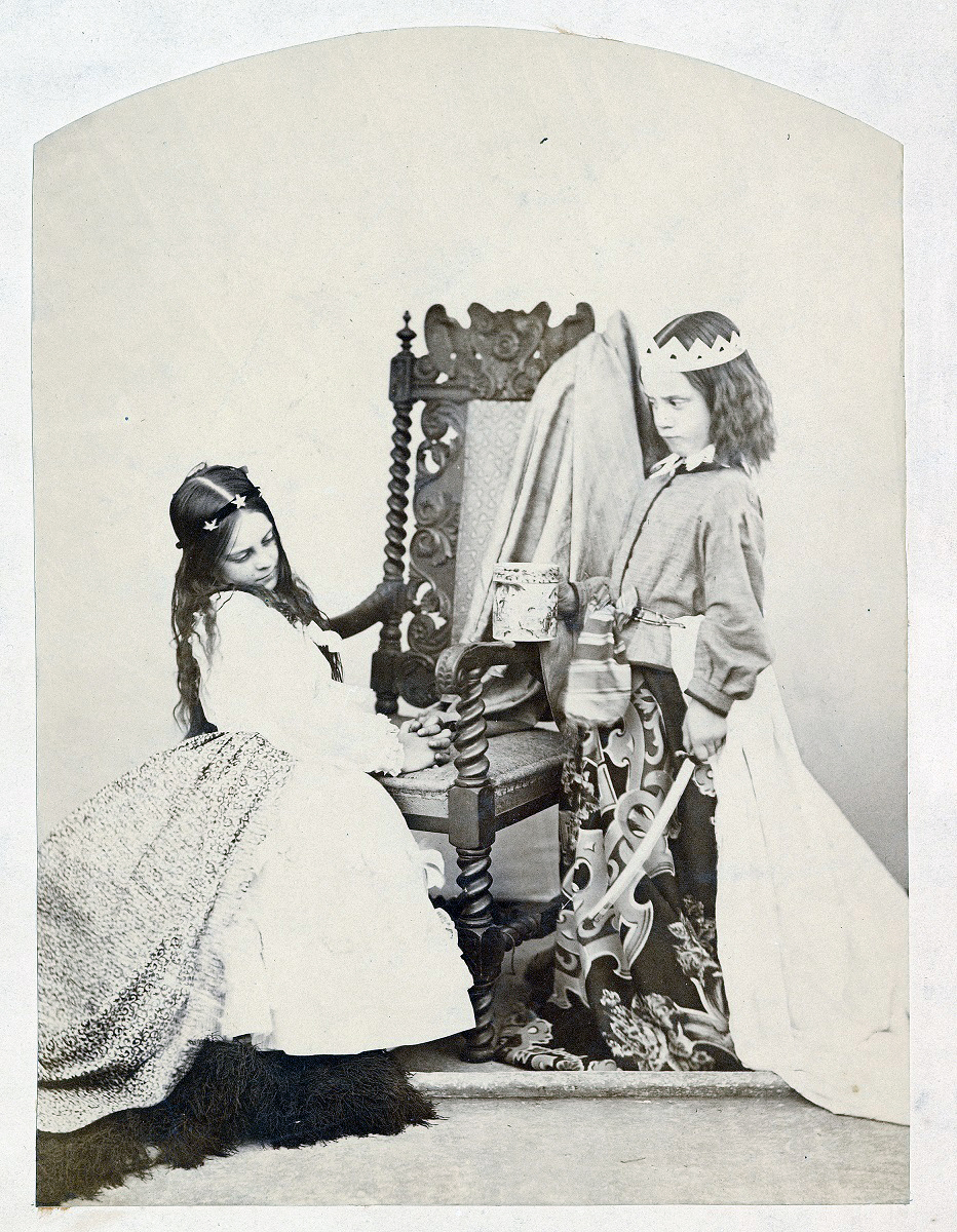 Depiction of Annie Rogers (who appears as Queen Eleanor) and Mary Jackson (as Fair Rosamond) by the Lewis Carroll.